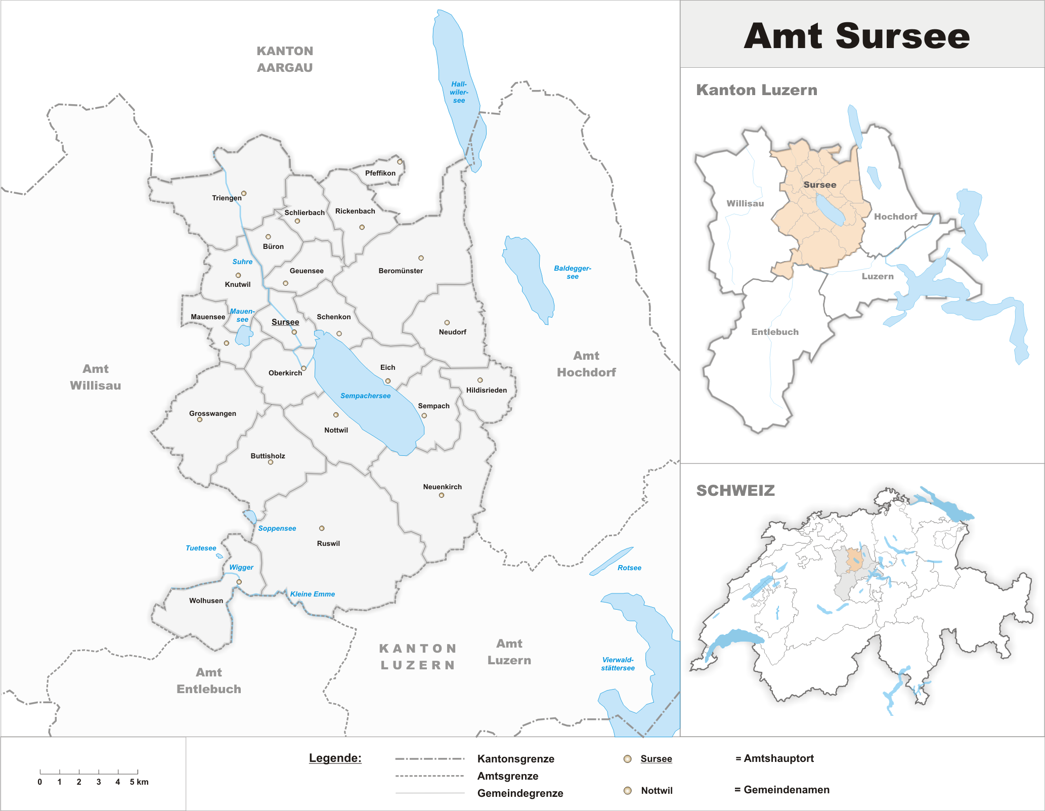 Municipalities in the district of Sursee to 2009